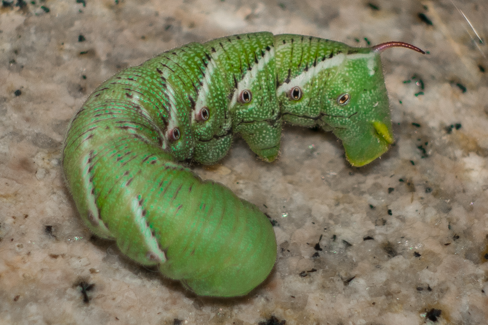 In the larval state its rear end can be confusd as its head.